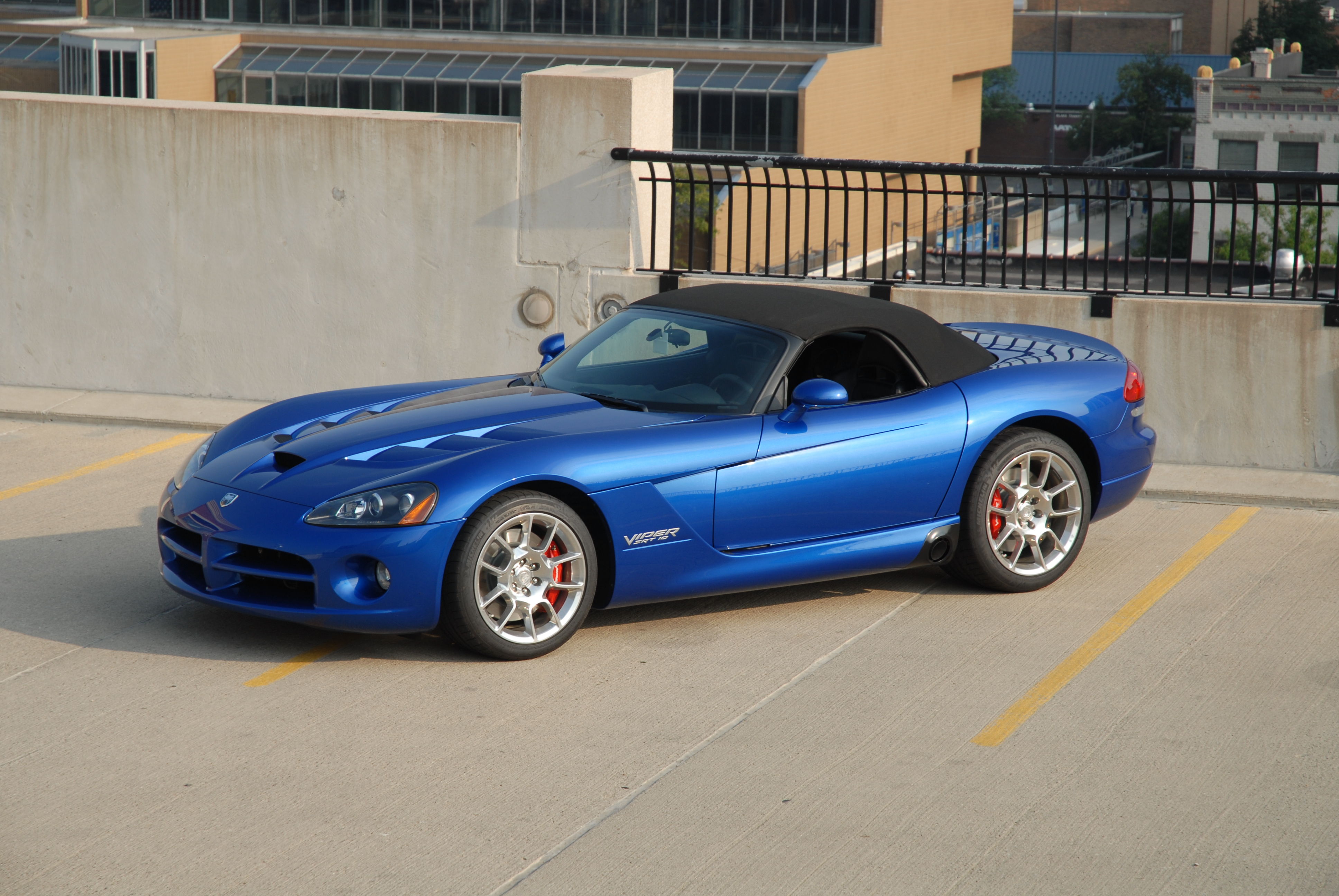 20085 Viper, Fourth Generation Viper, Viper ZB